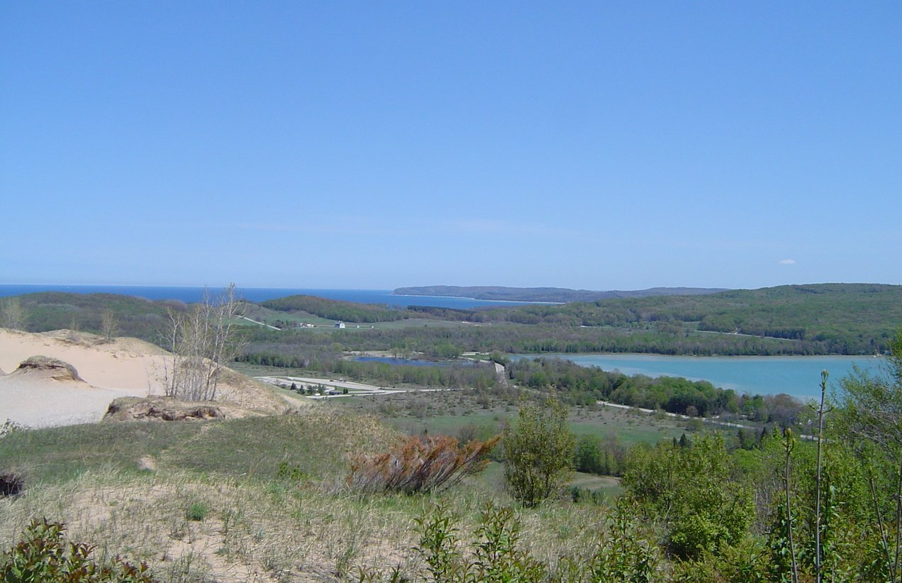 Pierce Stocking Scienic Drive view